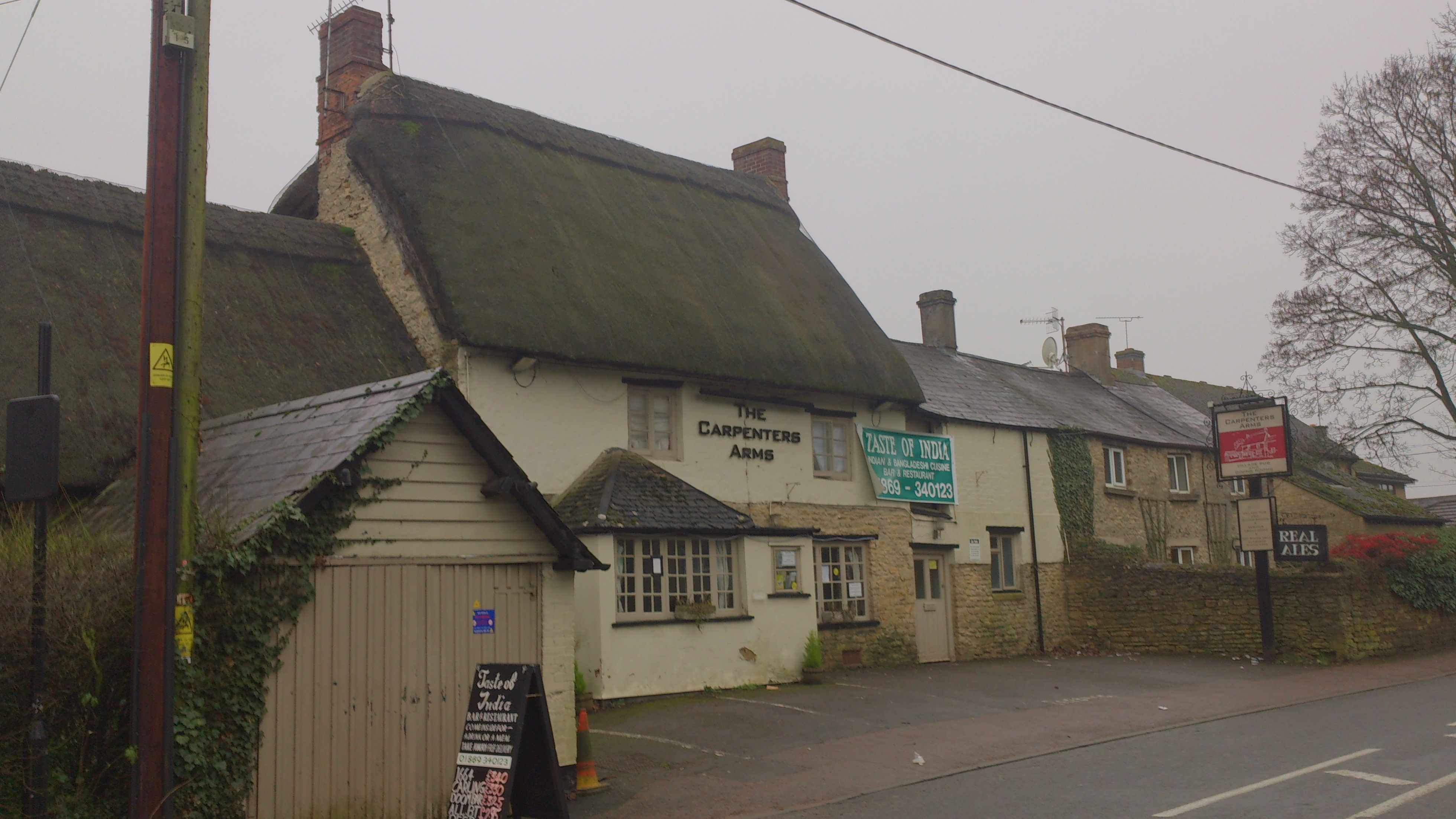 The Carpenters Arms in the Oxfordshire village of Middle Barton, January 2014.